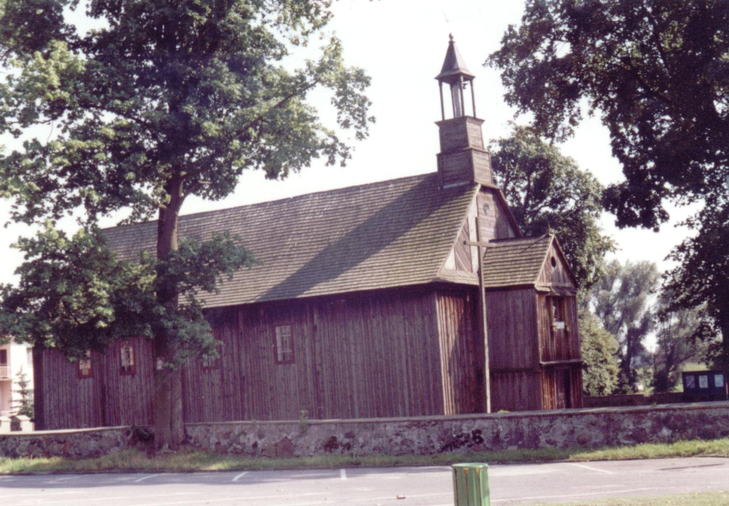 Saint Margaret church in Czerniewice, Poland